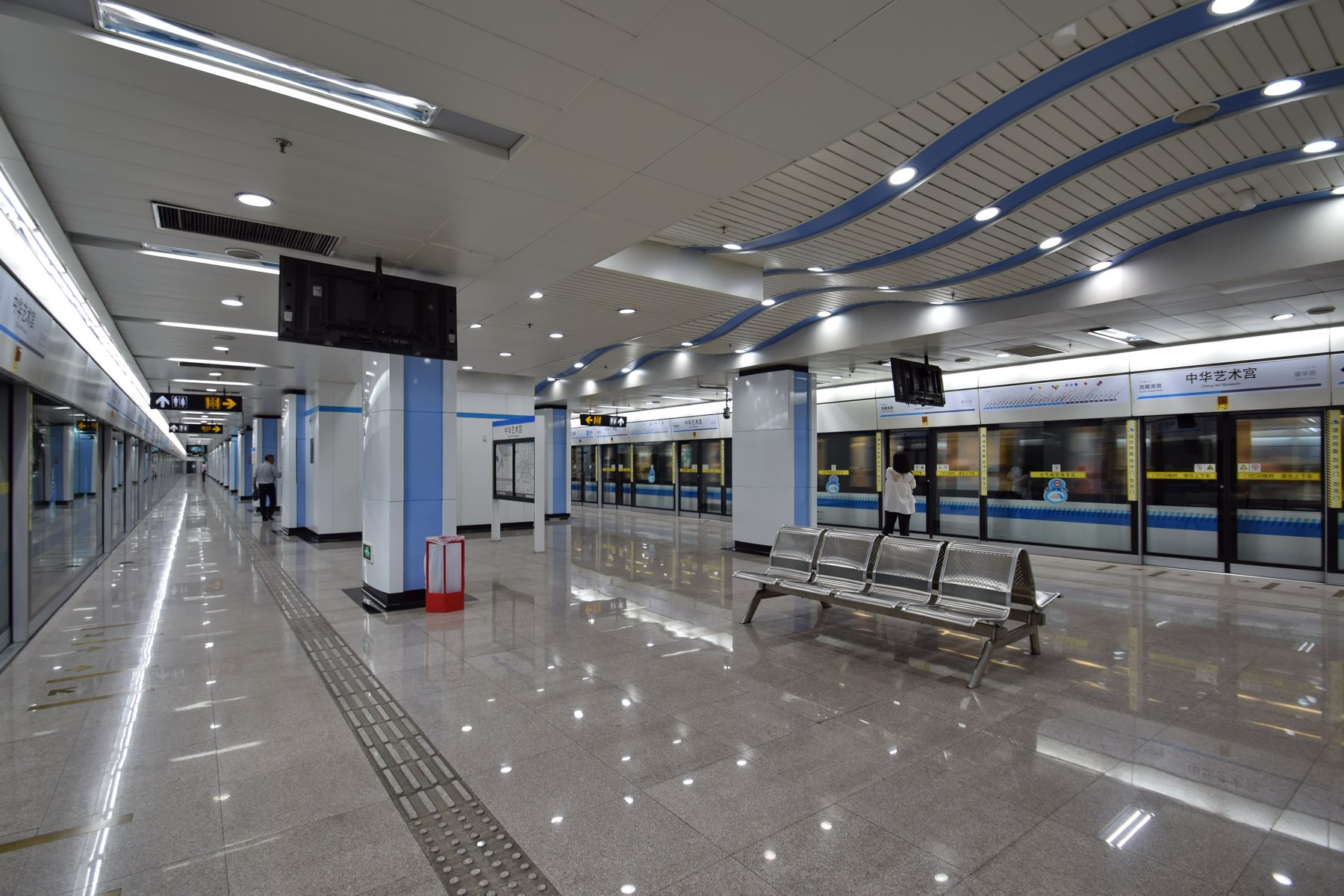 Line 8 Platform of China Art Museum Station, Shanghai Metro